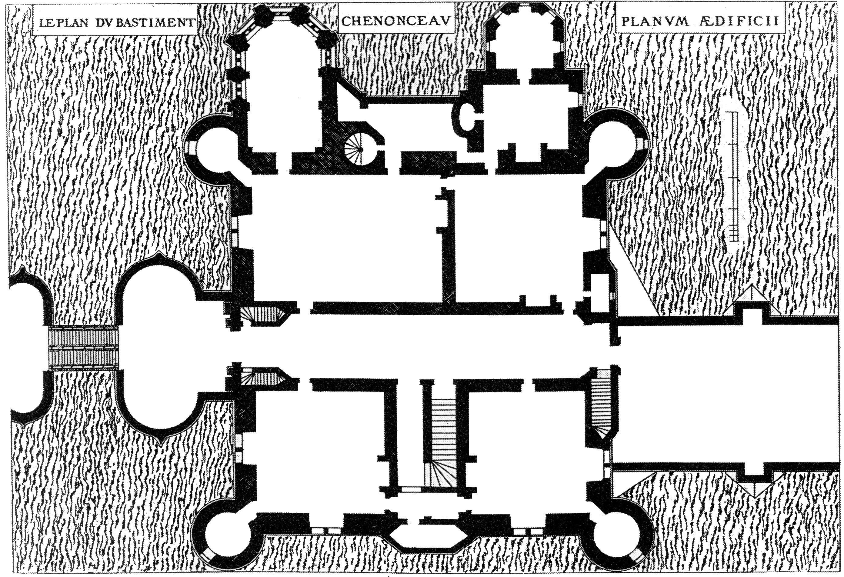 Château de Chenonceau, floor plan of the Logis